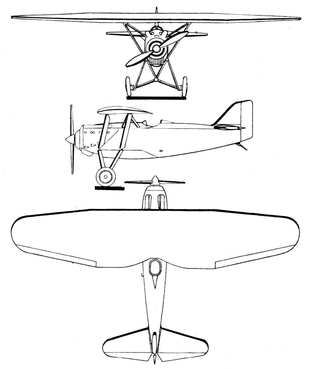 Dewoitine D.27 3-view drawing from Les Ailes June 29,1928